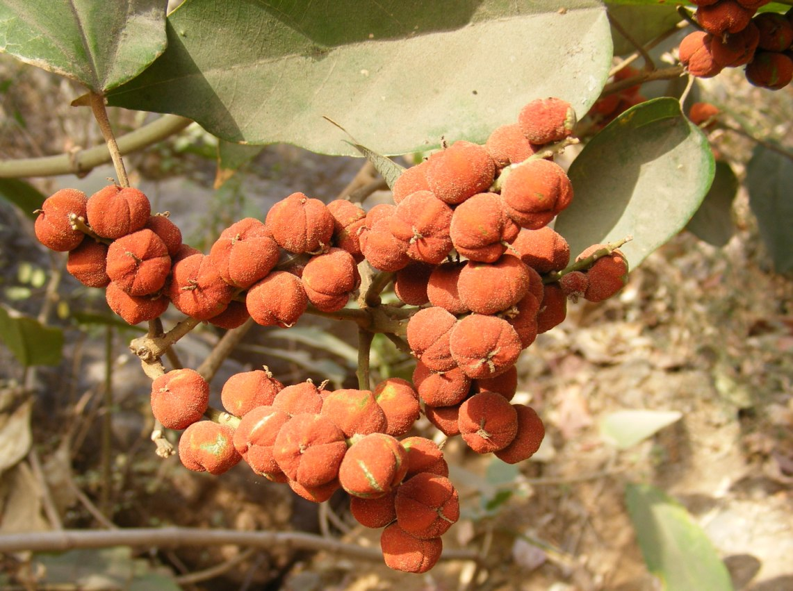 Mallotus philippensis Tree Mumbra Mumbai. Figs